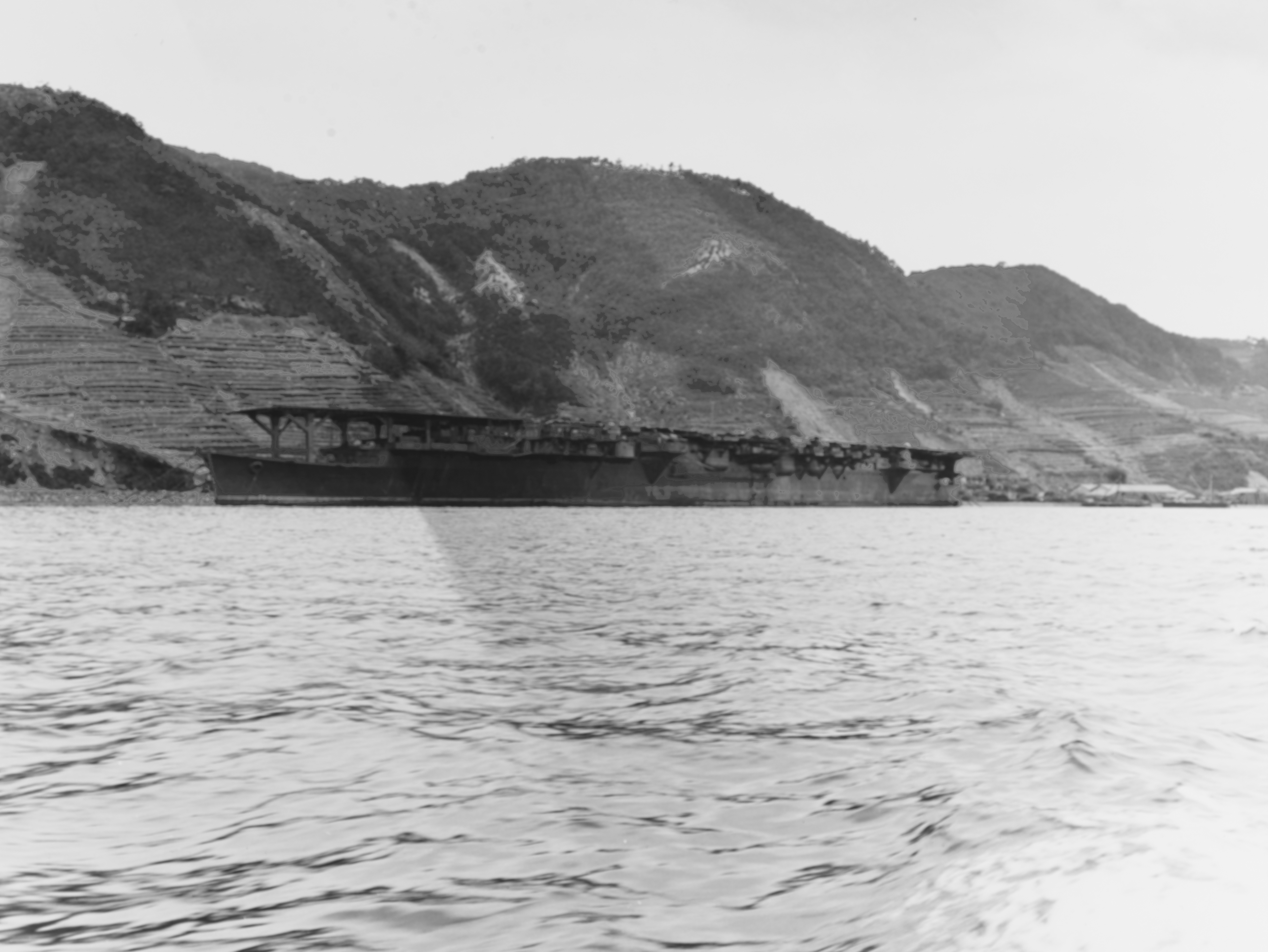 The Japanese aircraft carrier Ryūhō anchored at Kure, Japan, on 9 October 1945.